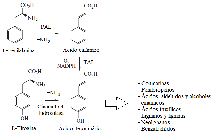 Scheme illustrating the phenylpropanoids pathways